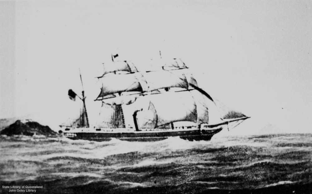 P&OSN Co 699 GRT liner Chusan, built by Miller, Ravenhill and Walker of Newcastle-upon-Tyne for the Peninsular & Oriental Steam Navigation Co. She was launched in 1851 and completed in 1852. She arrived in Sydney, New South Wales on 3 August 1852, making her the first P&O steamer to visit Australia. David Sassoon & Sons of Shanghai bought her in 1861. She changed hands again in 1867 and 1868, being renamed first Kofuyo and then Kayo. She was hulked in 1872.